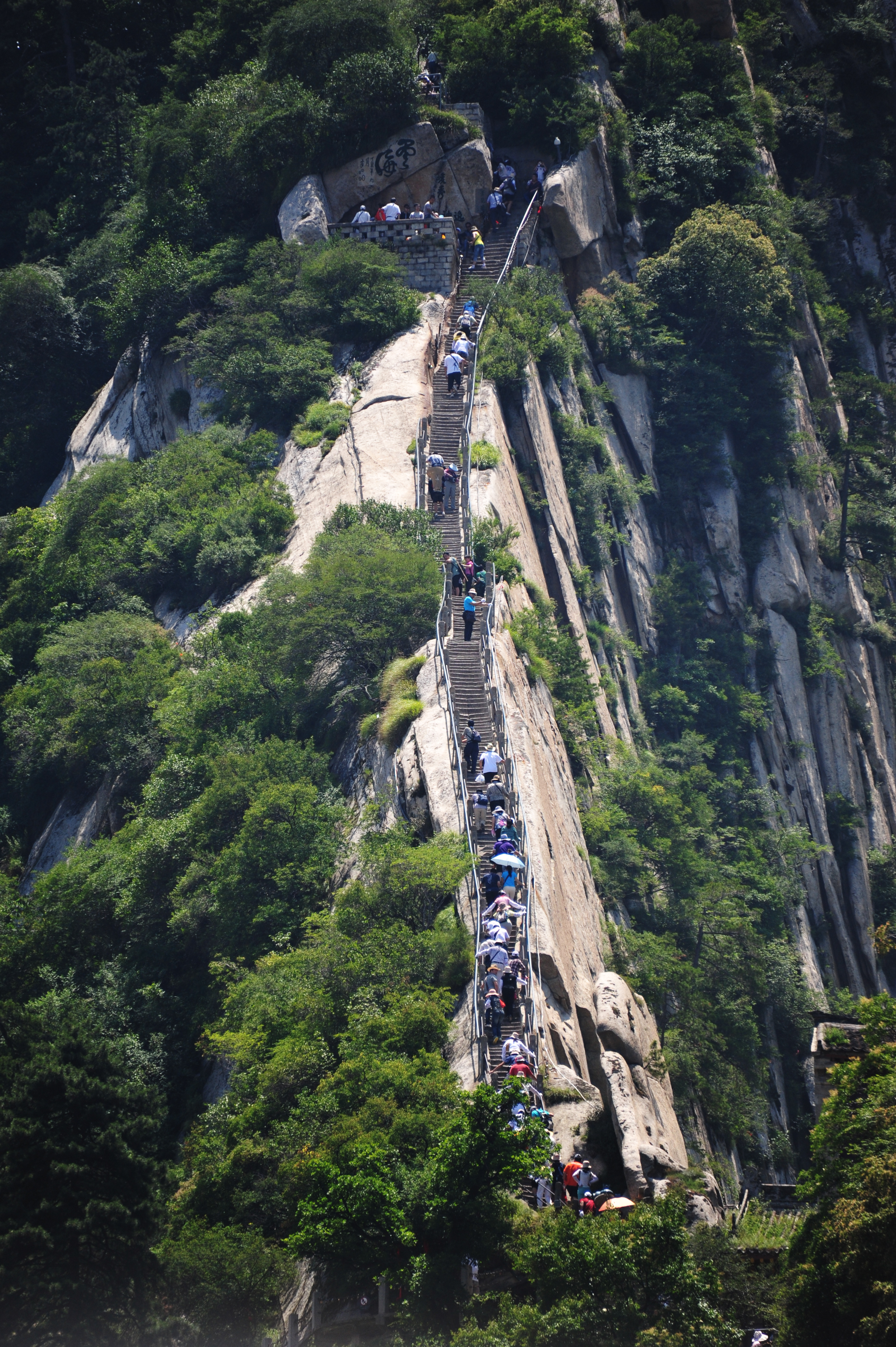 Mount Hua Shan peak steps China 2011